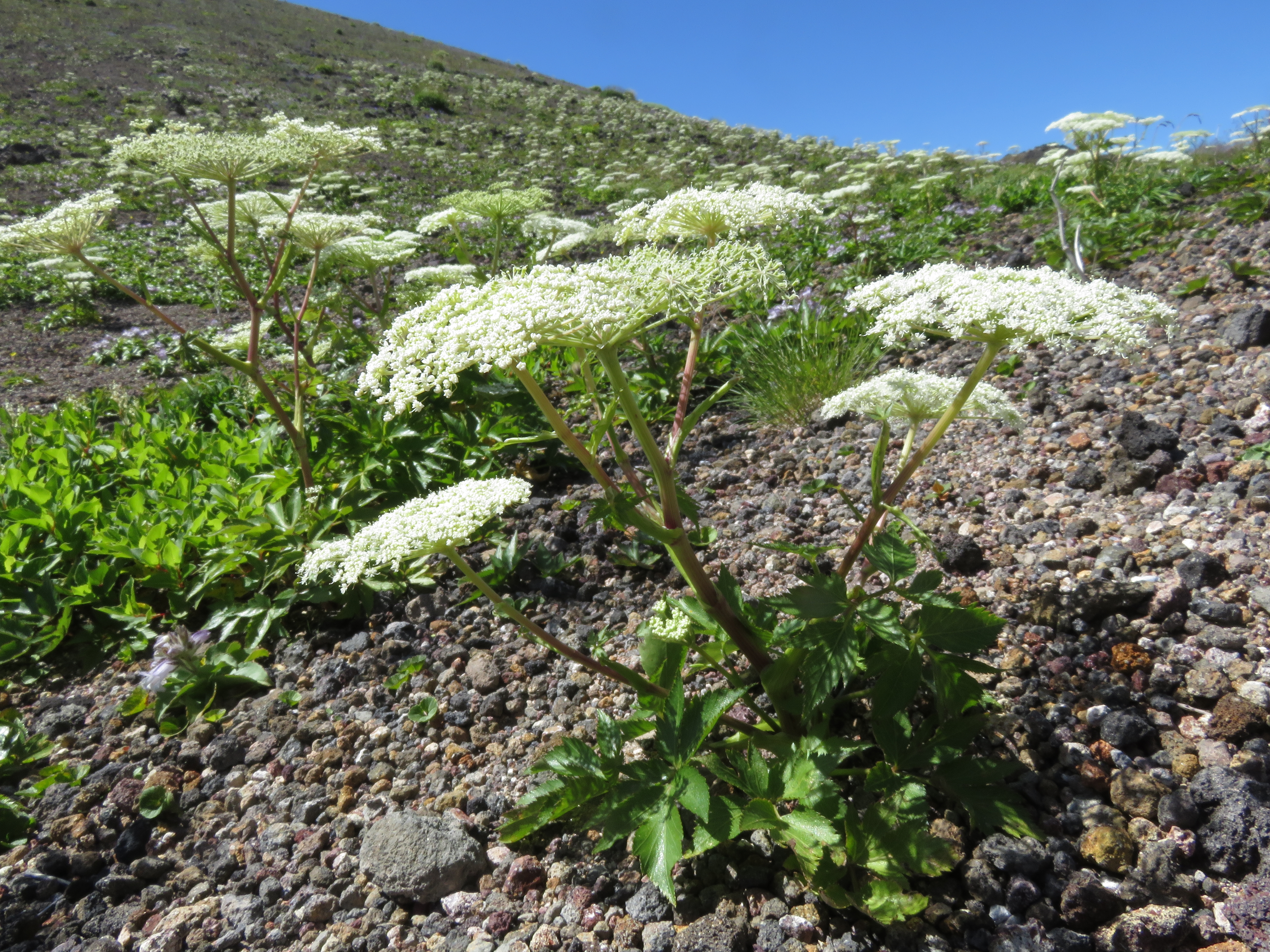 Angelica acutiloba subsp. iwatensis, Mt. Iwate, Iwate pref., Japan